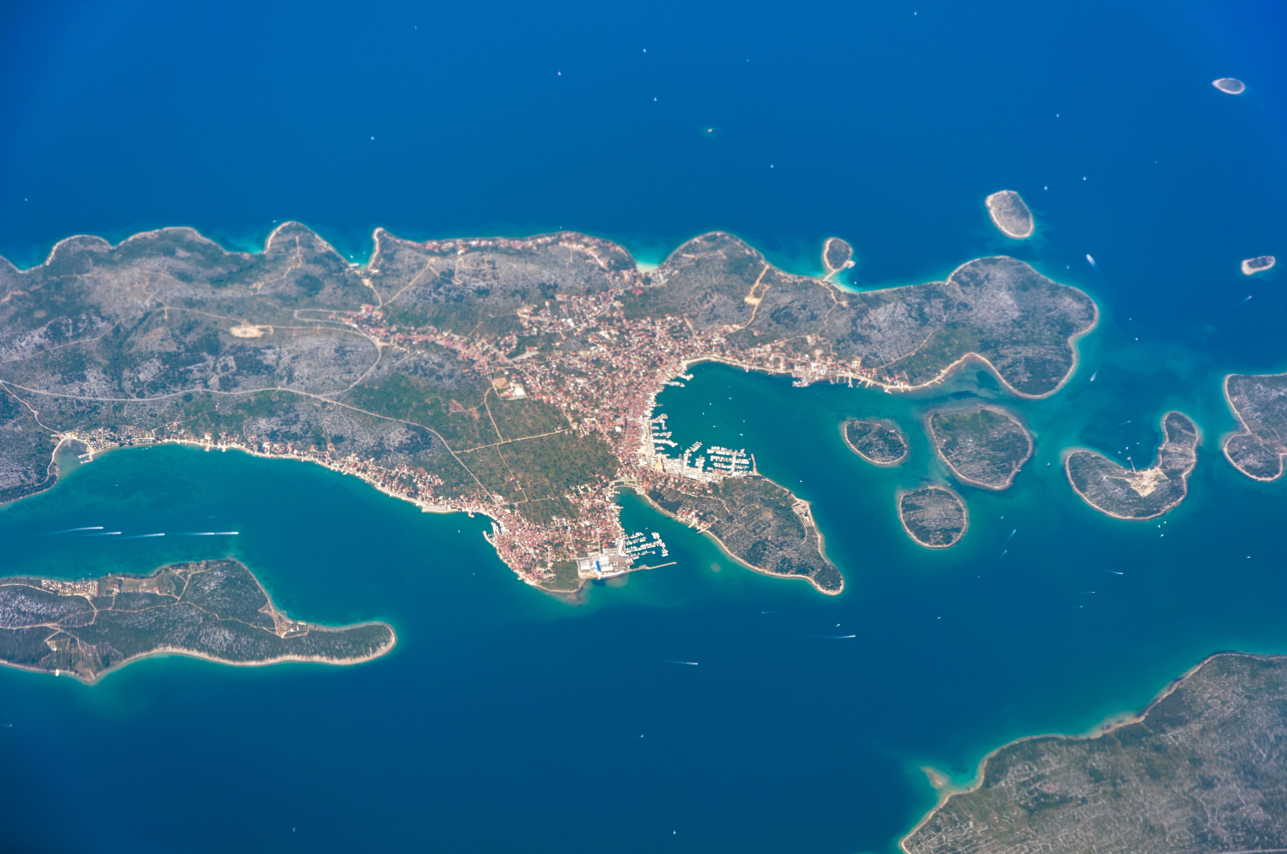 Croatia, Island of Murter from 10900 m